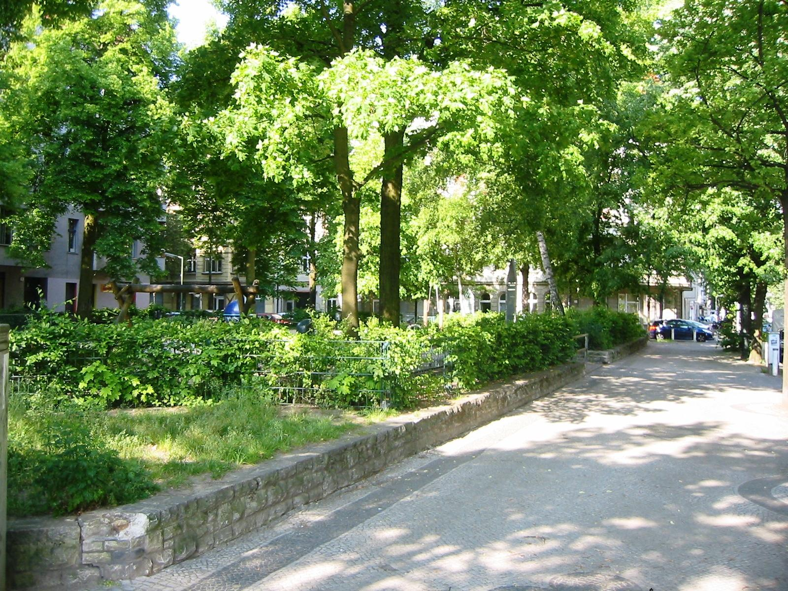 Berlin-Schöneberg Leuthener Platz